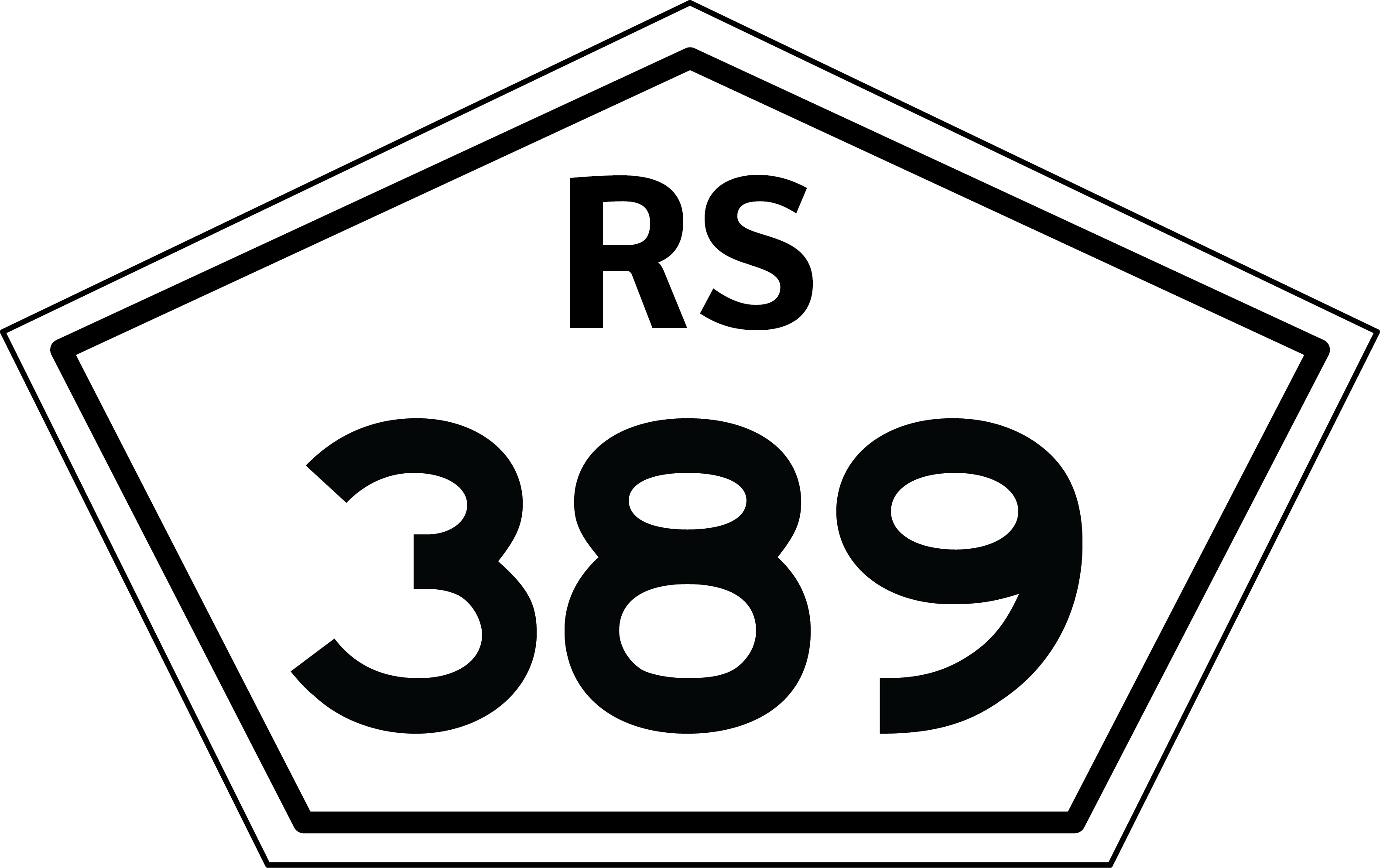 RS-389. State road in Rio Grande do Sul, Brazil. Rodovia estadual no Rio Grande do Sul, Brasil.